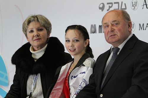 Elizaveta Tuktamysheva with their coaches Alexei Mishin and Svetlana Veretennikova at the 2010-2011 Junior Grand Prix of Figure